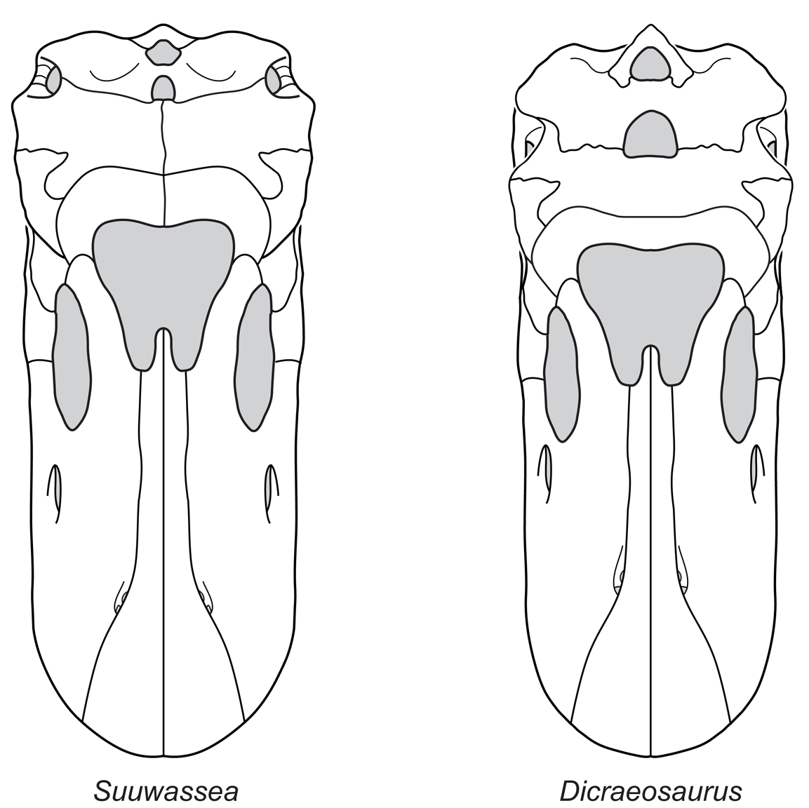 Reconstructions of diplodocoid skulls used in this analysis. Reconstructions of Nigersaurus and Diplodocus modified from [10] and [34], respectively. All other reconstructions based on material listed in Table S1. Skulls scaled to equivalent anteroposterior lengths.